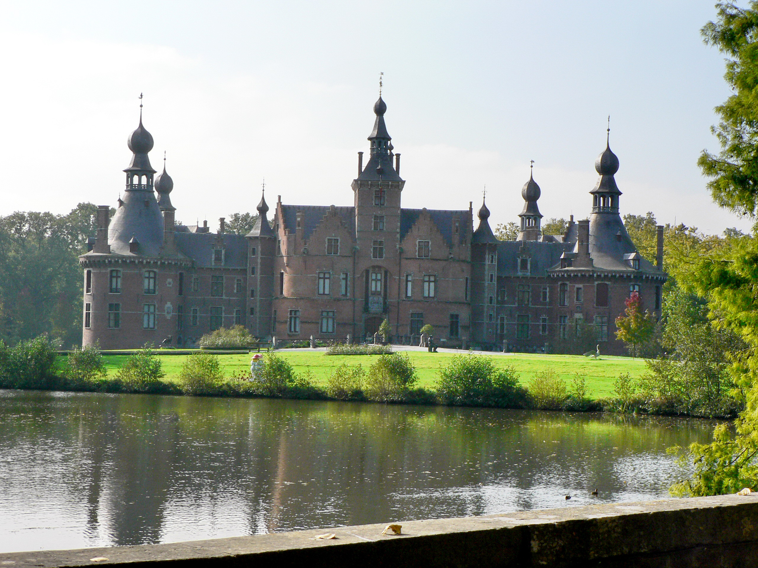 Castle of Ooidonk, Belgium